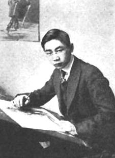 Photograph of cartoonist Paul Fung in 1917